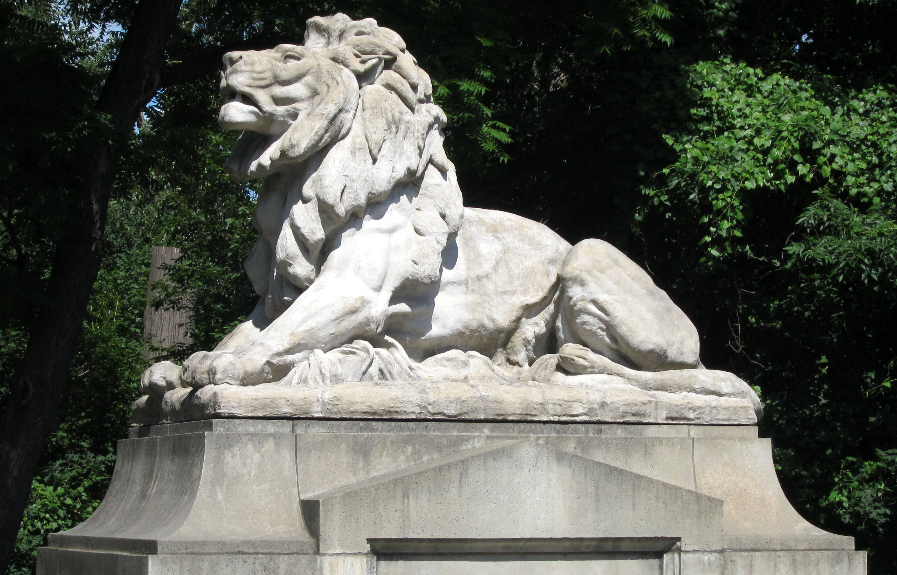 The Perry Lions (original cast - 1906, Roland Hinton Perry; 2000 cast - Reinaldo López-Carrizo) on the Taft Bridge in Washington, D.C.